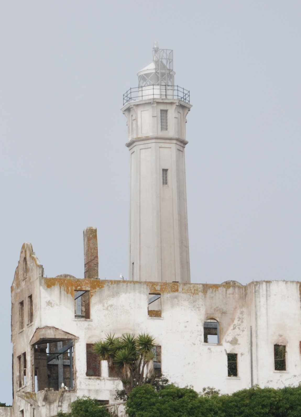 Alcatraz Island Light located off the coast of San Francisco, California.